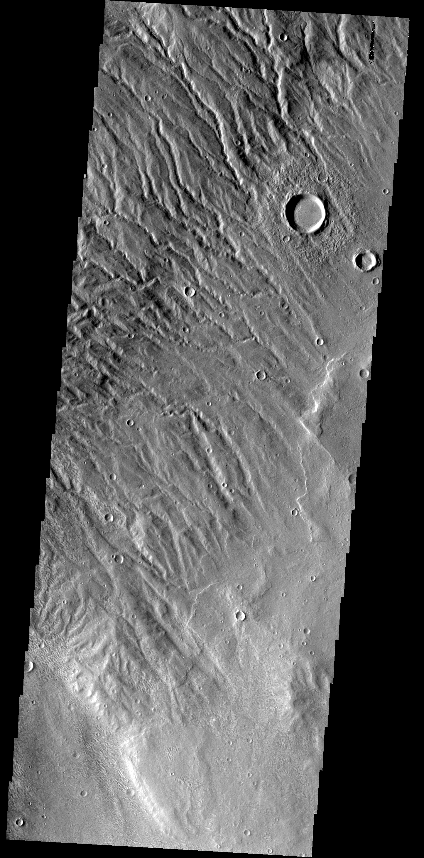 Acheron Fossae